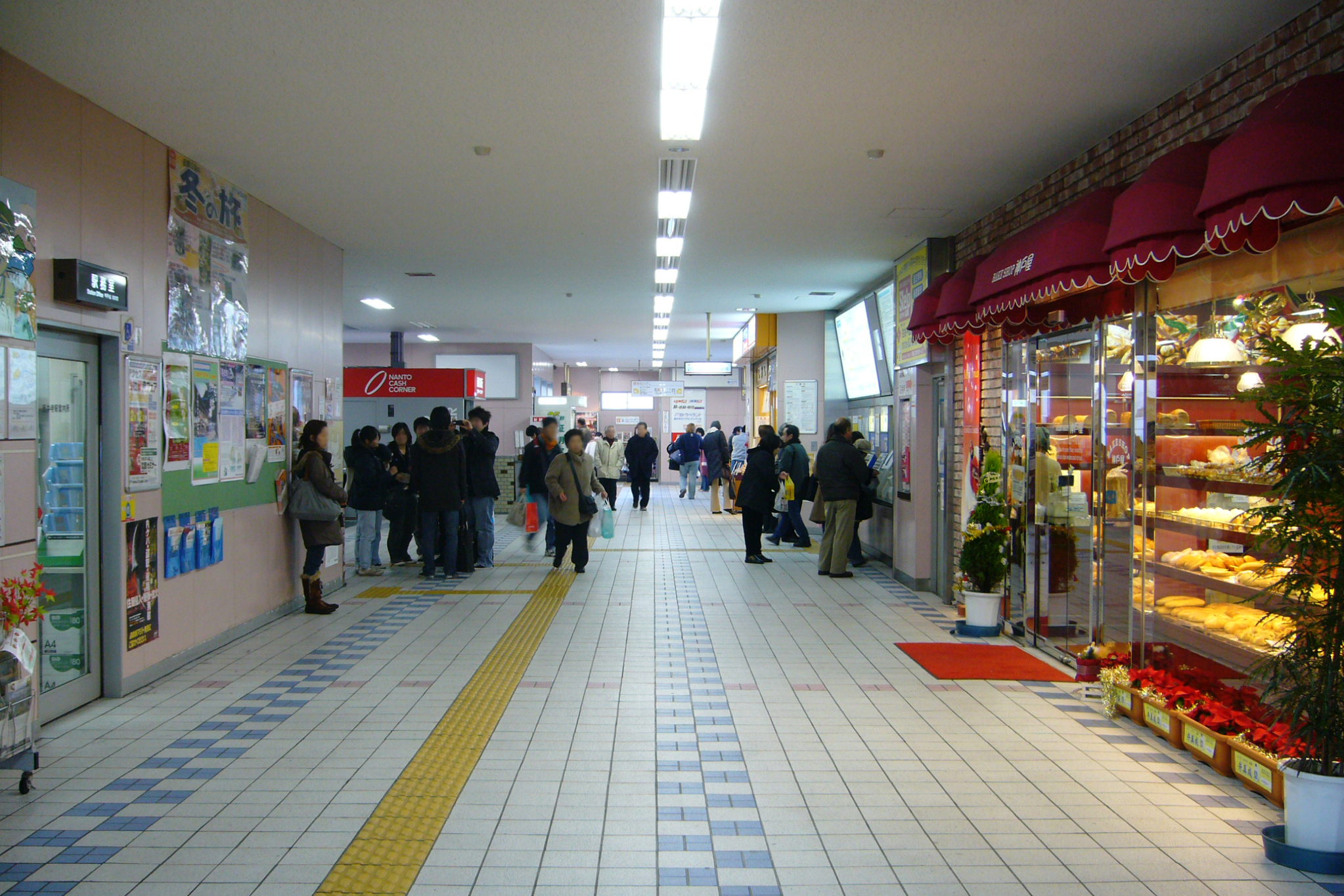 Fujiidera Station in Fujiidera, Osaka prefecture, Japan